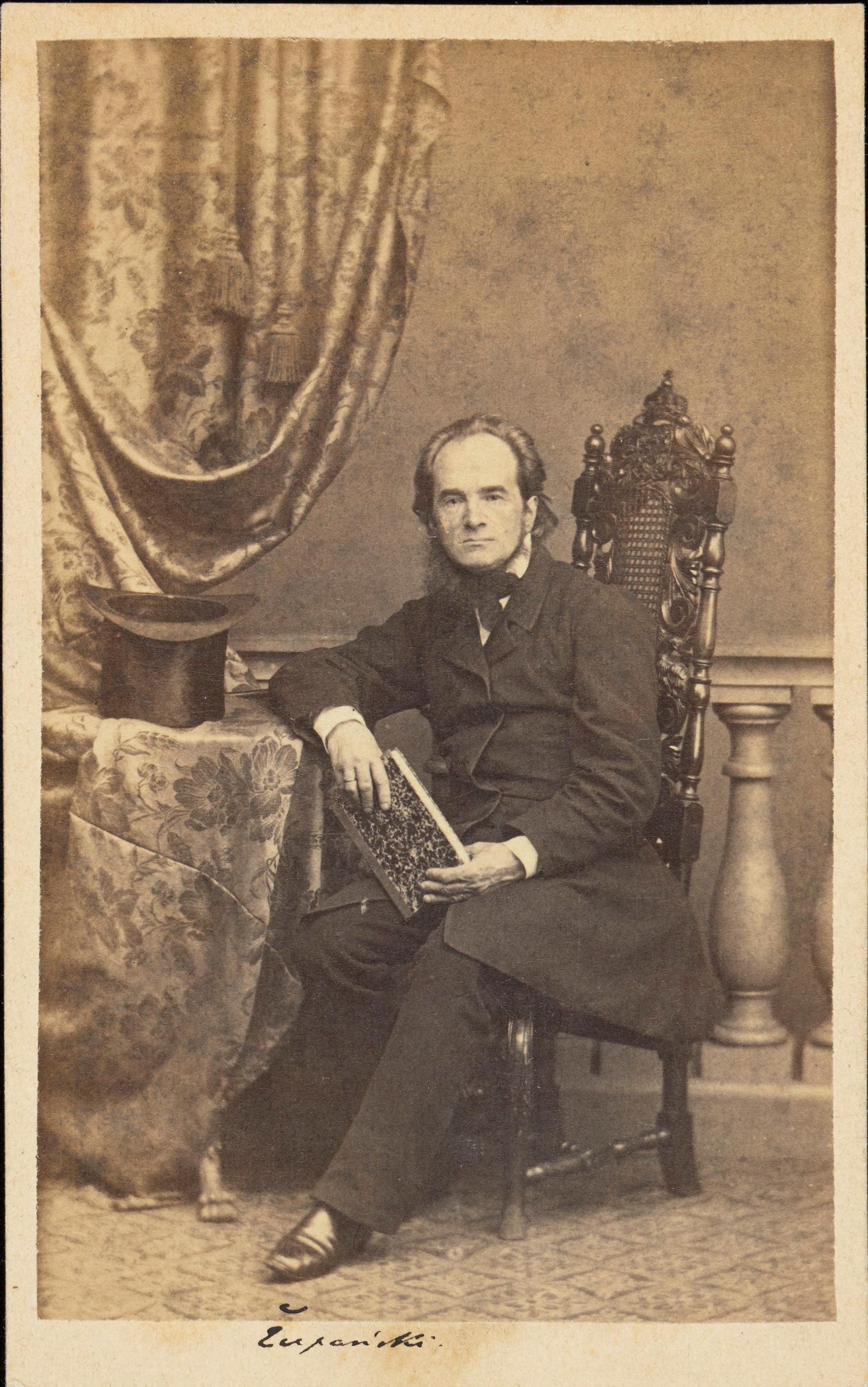 Jan Konstanty Żupański